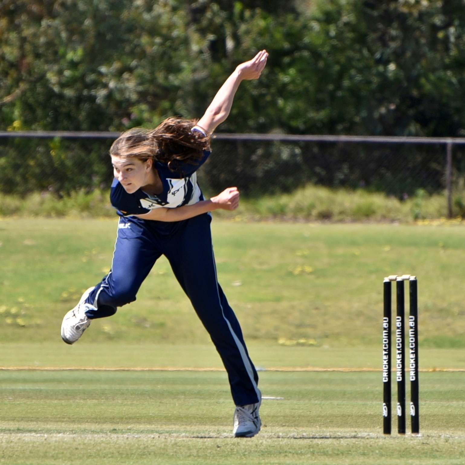 Annabel Sutherland bowling for the Victoria Women cricket team during a WNCL clash against the South Australian Scorpions at Murdoch University Sports Oval in Perth